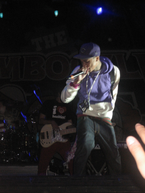 Tyga performing in May 2008.